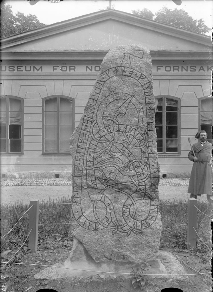 Rune stone (U 1011) originally from Örby in Rasbo parish, Uppland, The Rune stone was moved to Uppsala in the 17th century. The inscription says: "Vigmund had the stone cut in memory of himself, the most skillfull of men. May God help Vigmund the captain's soul. - Vigmund and Åfrid cut the memorial while he was alive". The building is the Orangery in the Linnaeus Garden with Uppsala University's Museum for Northern Antiquities.